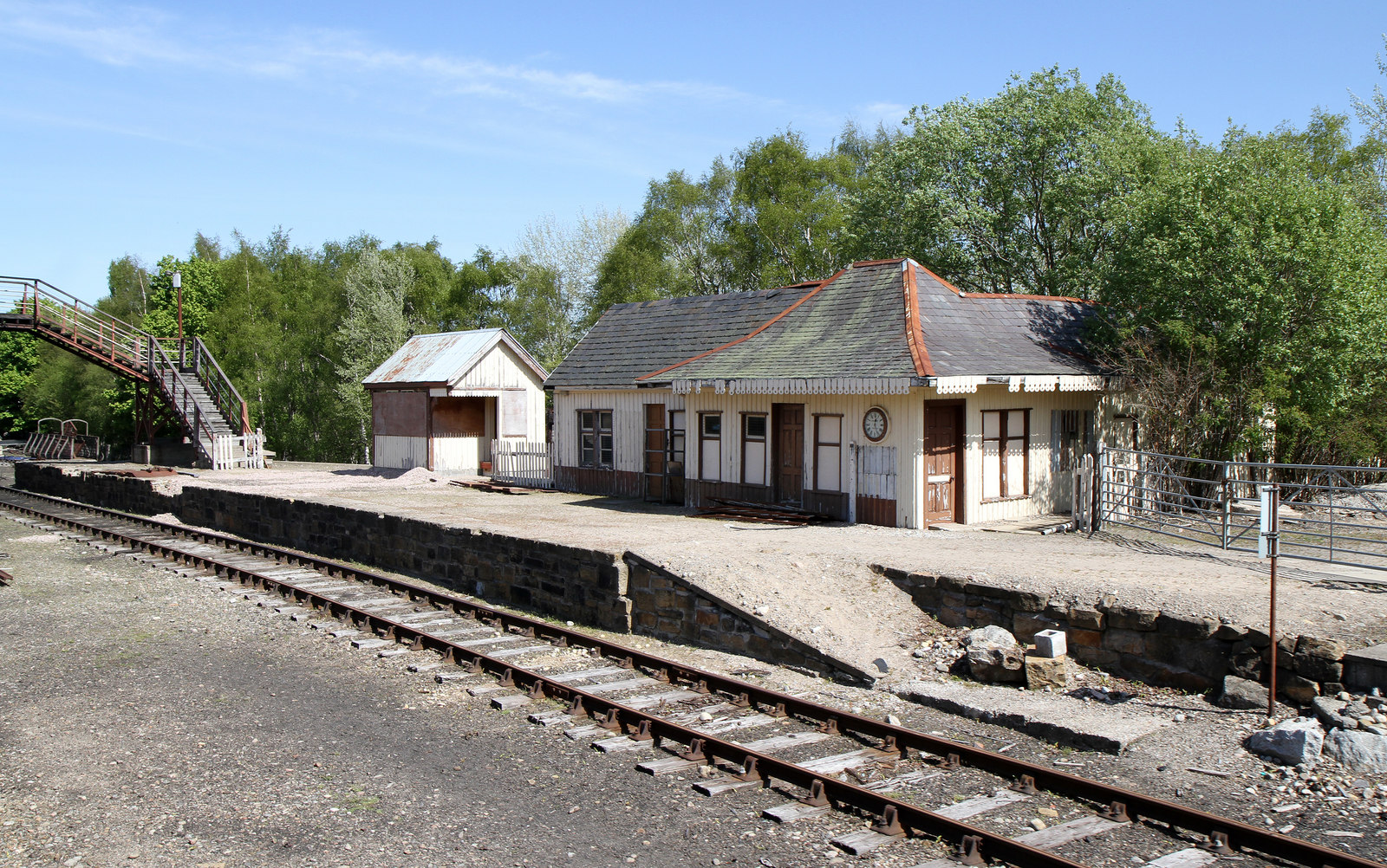 Aviemore Speyside Station. In the early years of the Strathspey Railway, British Rail refused access to Aviemore station. As a result, the society had to construct its own station. The buildings came from the closed station at Dalnaspidal. The preserved railway opened to passengers in 1978. In 1990, plans to redevelop the Aviemore Centre and improve tourist facilities in the area resulted in a deal being reached with Railtrack to use platform 3 of the mainline station. With refurbishment of the mainline station completed and services operating from there, Aviemore Speyside Station closed in 1998. Near to Aviemore, Highland council area, Scotland.